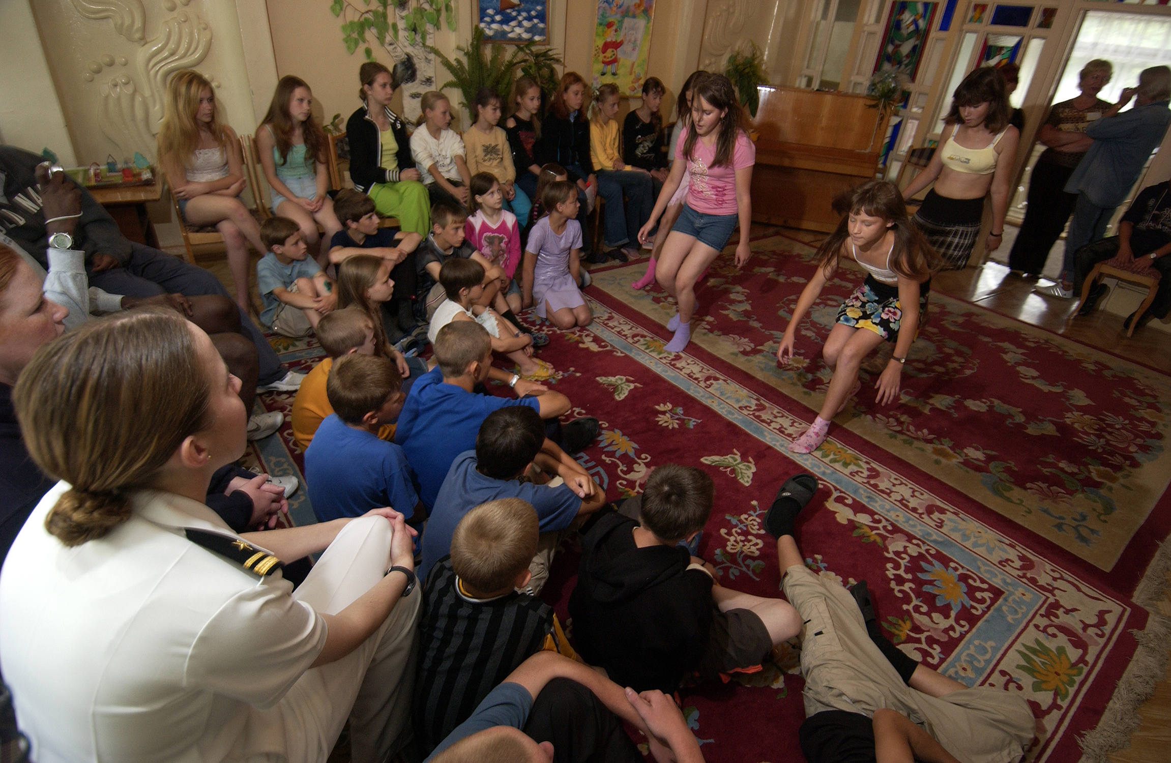 Salograd, Russia (July 3, 2005) - Children living at Cape of Turtle orphanage perform a dance for crew members of the guided missile destroyer USS Curtis Wilbur (DDG 54) during a community relations project. Wilber, along with the mine warfare ships USS Patriot (MCM 7) and USS Guardian (MCM 5), visited Vladivostok to celebrate the 145th anniversary celebration of the city, U.S. Independence Day on the Fourth of Jusly, and to participate in a wreath-laying ceremony for Russian Sailors who scarified their lives during World War II. Curtis Wilber is currently on a routine scheduled underway period. U.S. Navy photo by Photographer's Mate 2nd Class John L. Beeman (RELEASED)